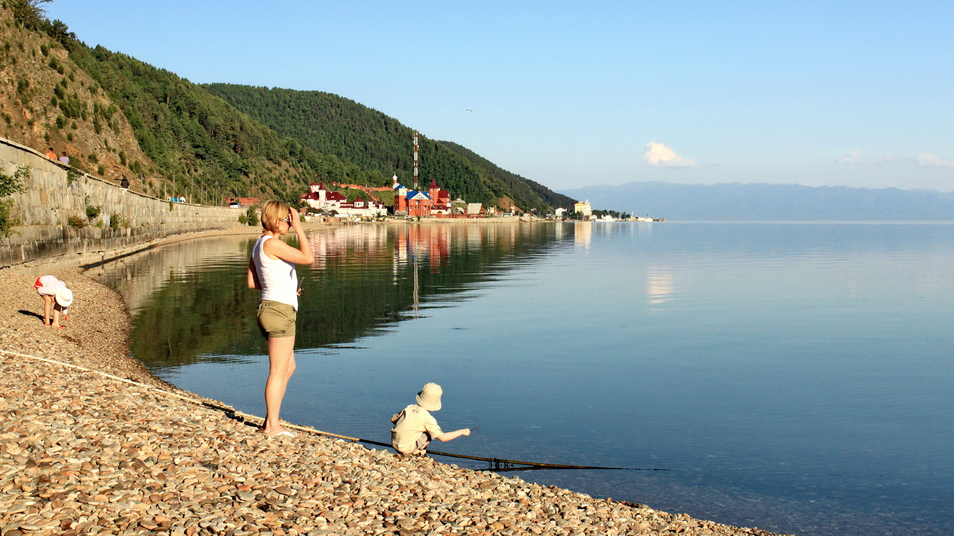 Listvyanka and Lake Baikal. Siberia, Russia.